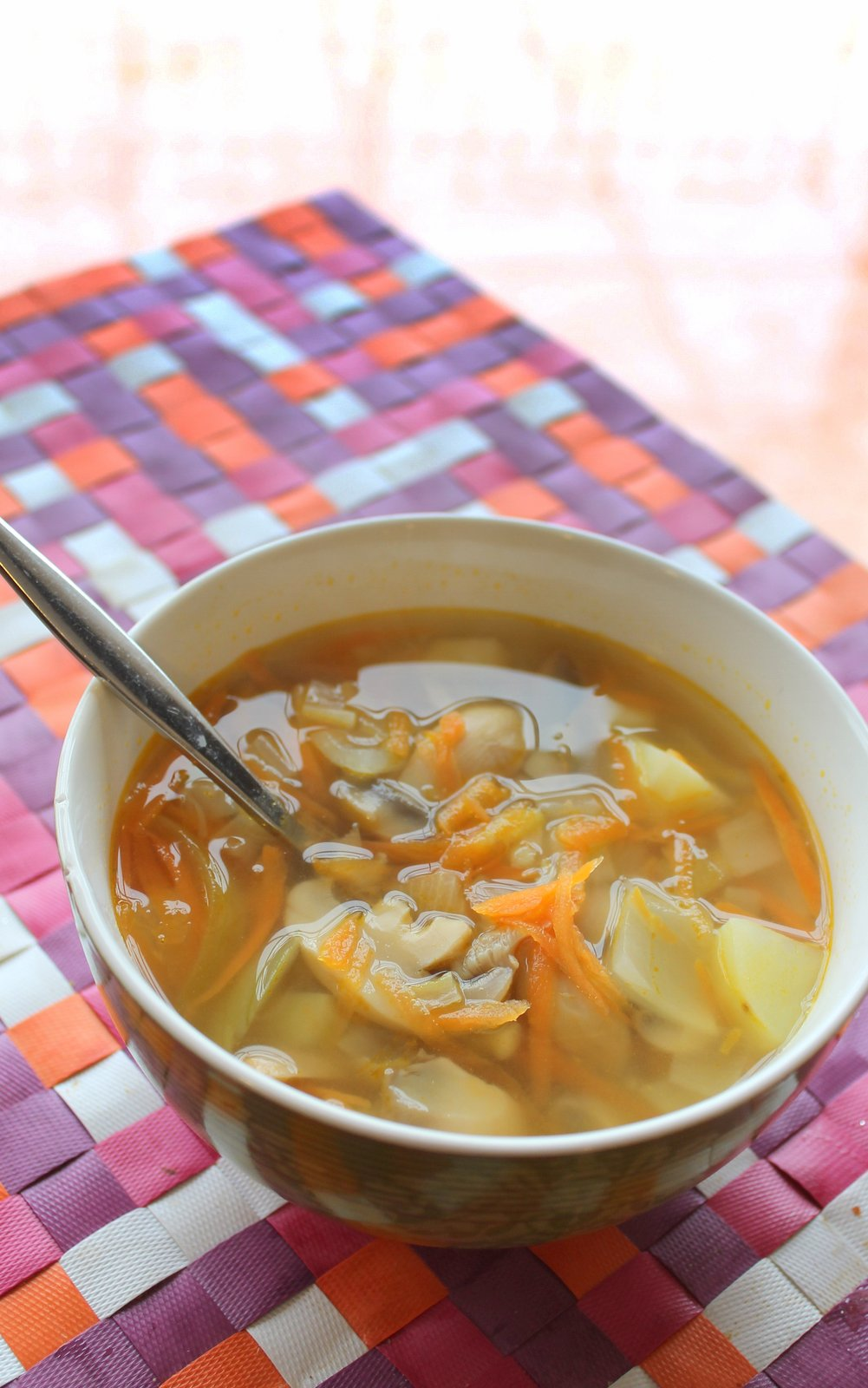 Mushrooms and potatoes soup